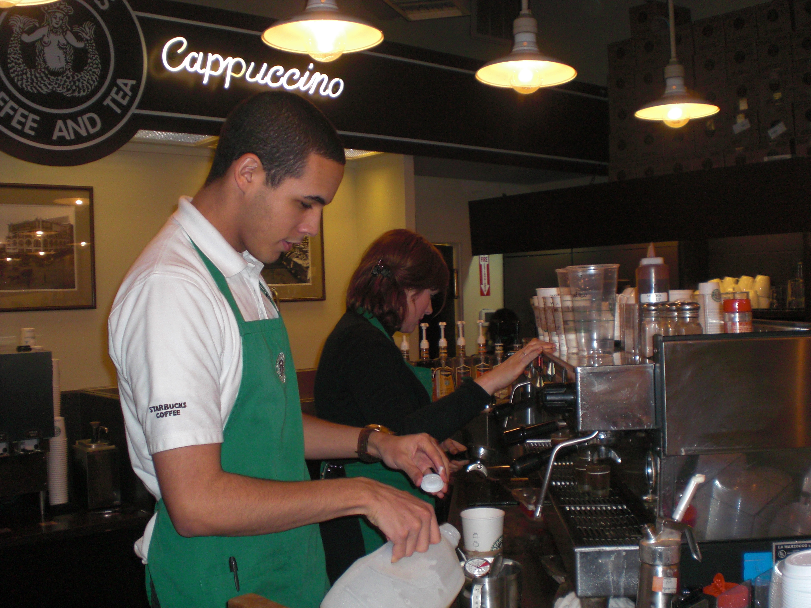 A picture of baristas at work in the first Starbucks coffee shop, Seattle, WA. Picture taken the morning of Saturday, January 29, 2011.